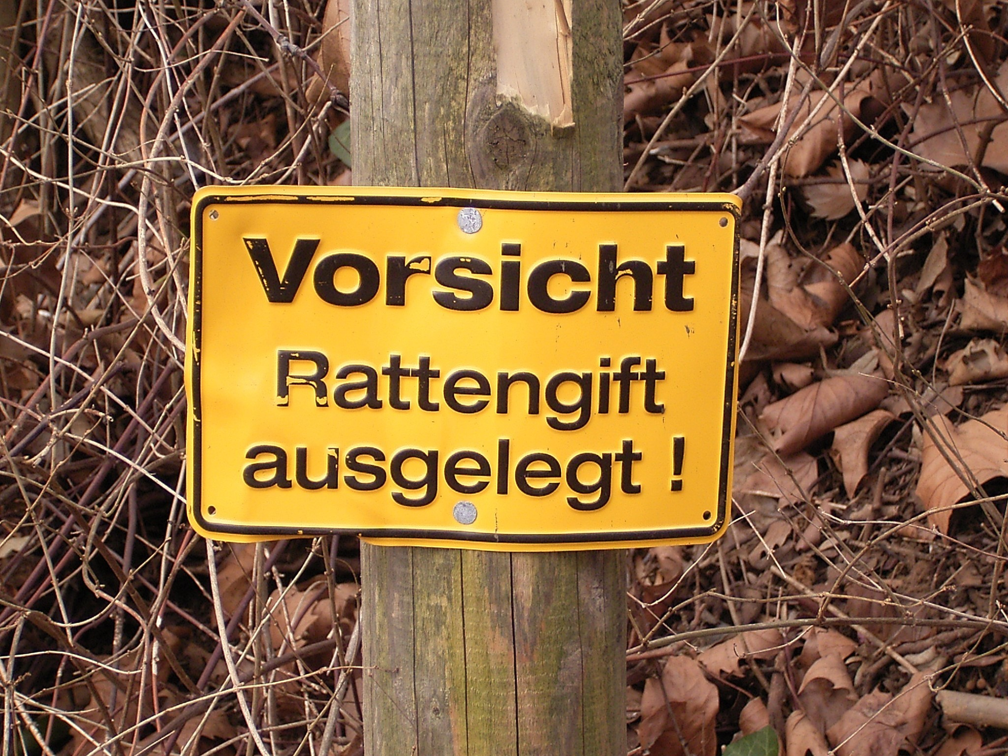 Rat poison warning sign